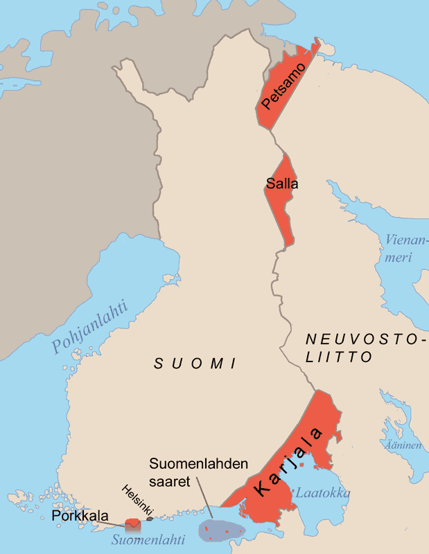 A map of areas ceded by Finland to the Soviet Union in the Moscow 1944 armistice with Finnish captions.